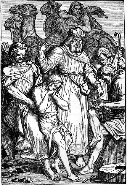 Joseph is sold by his brethren.